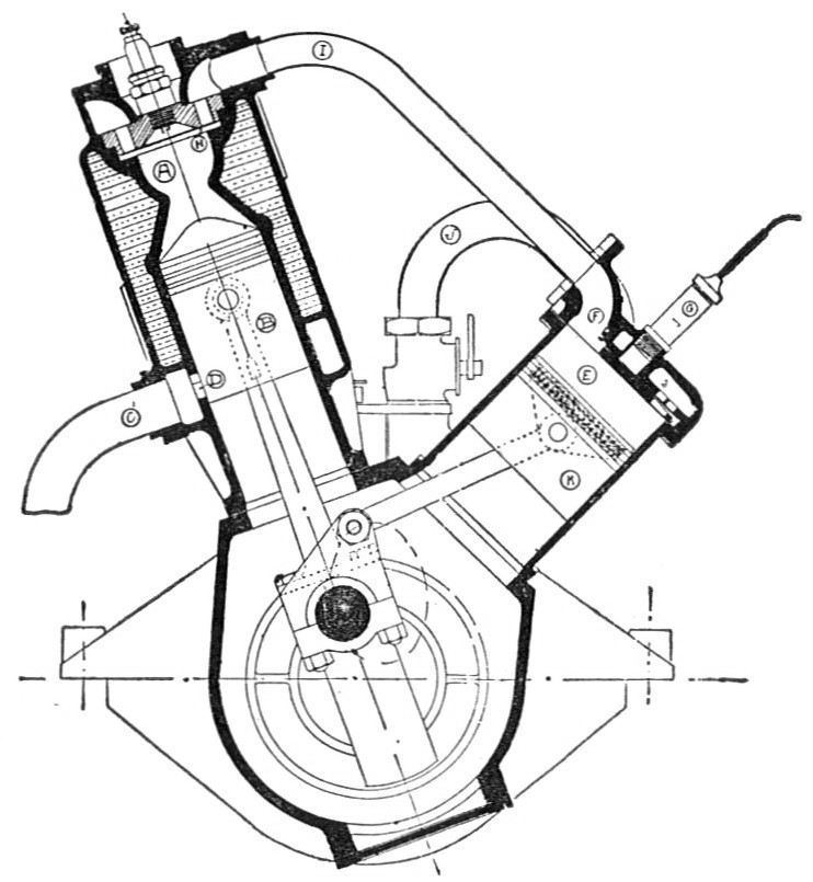 Fig. 205 Two-stroke twin-cylinder engine with separate pumping cylinders. A twin cylinder two-stroke engine, using another pair of cylinders (four in all) to provide compression. The more common modern method is to use the crankcase for the same purpose. Although described in the original caption as a "vee twin", this is more like a parallel twin. The "vee" aspect is how the pumping cylinders form the vee. Also note the use of a master-slave connecting rod to drive the pumping cylinders. Scans from 'The Book of the Motor Car', Rankin Kennedy C.E., 1912 See other images from this source in Scans from 'The Book of the Motor Car'